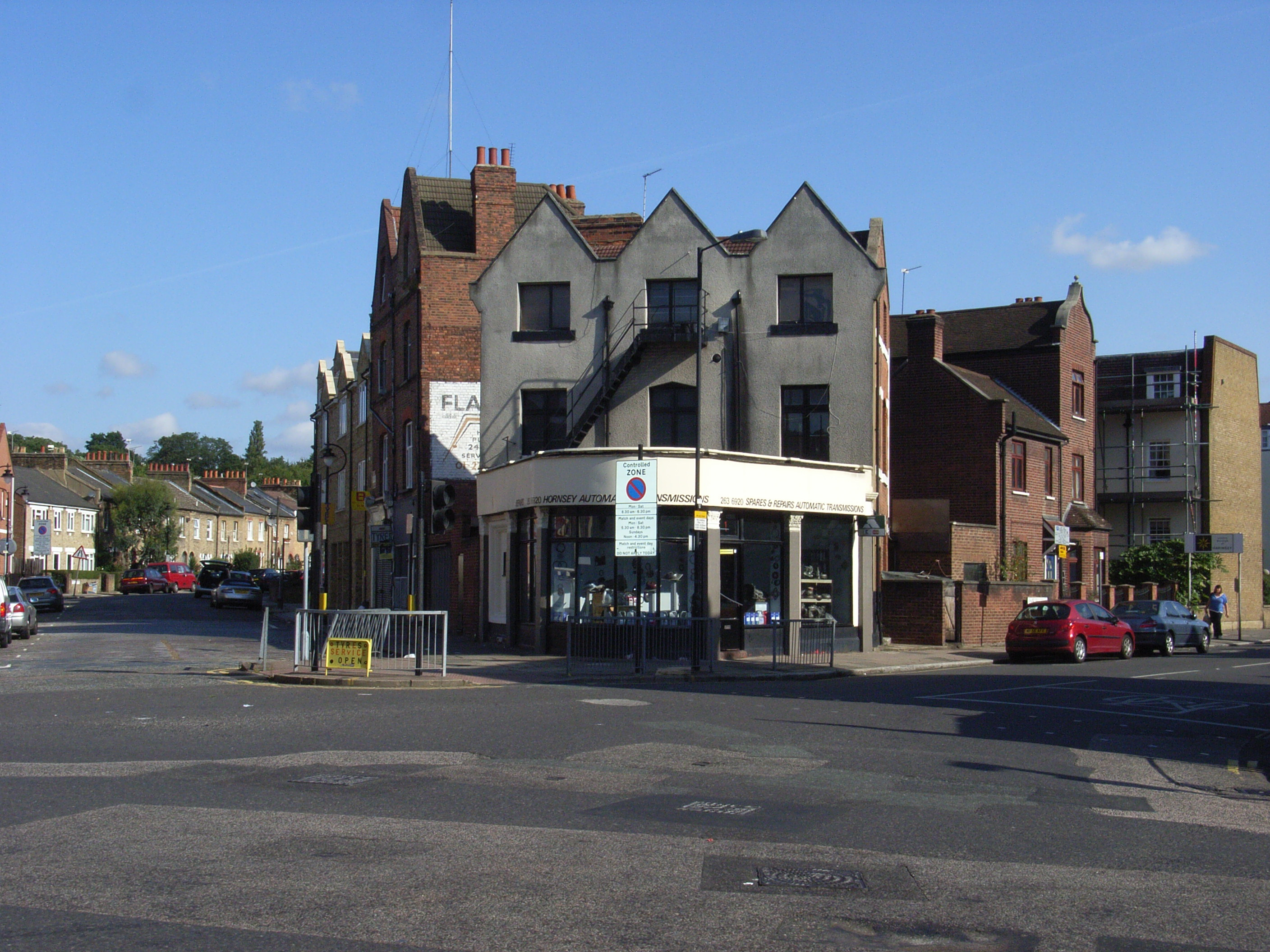 Site of the proposed (1895) Assembly Rooms at Stroud Green, in north London. We see from the plans, now in the London Metropolitan Archives, Clerkenwell, EC1, that the gabled building with a curved ground floor shopfront was already in existence at the time of the planning application, and did not form part of it; the plans show it as "Mr Tanners". The new Assembly Rooms were to be located immediately behind this building. The red brick buildings still visible are what remain of the uncompleted Assembly Rooms.